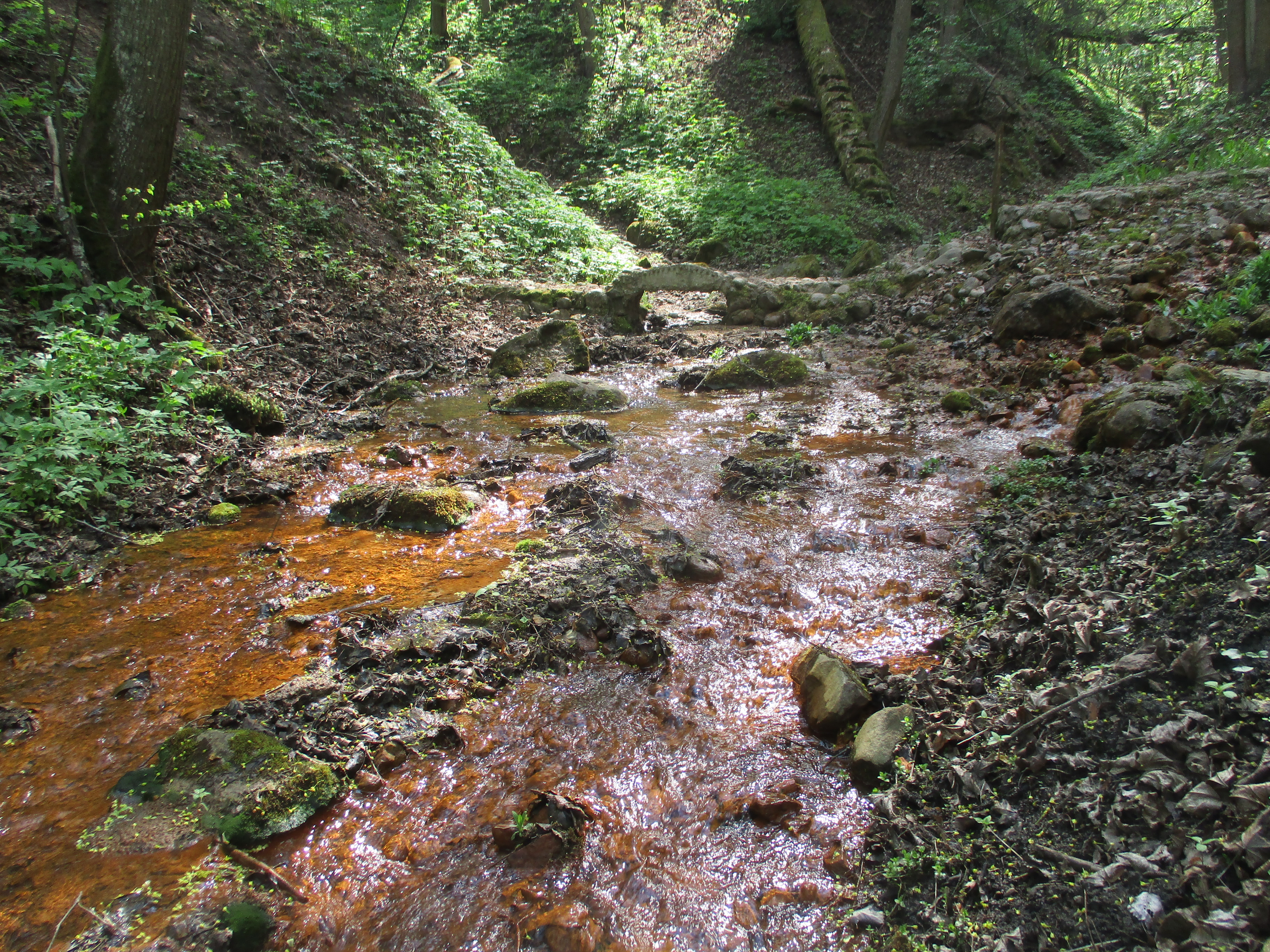 Saltupji holy spring - ancient cult place. Aknīste parish.